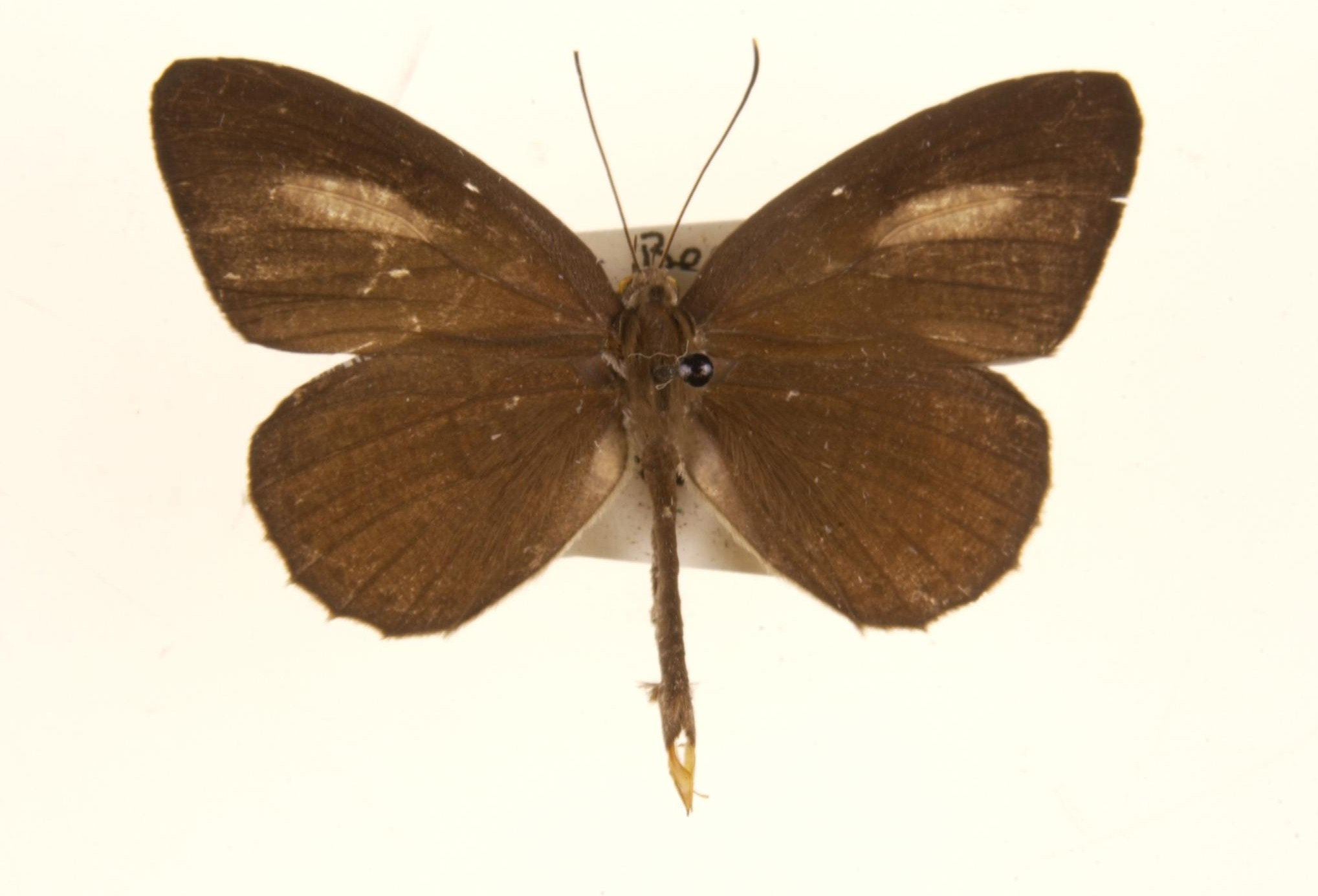 Allotinus horsfieldi Male